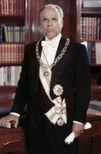 Official portrait of President Habib Bourguiba of Tunisia.